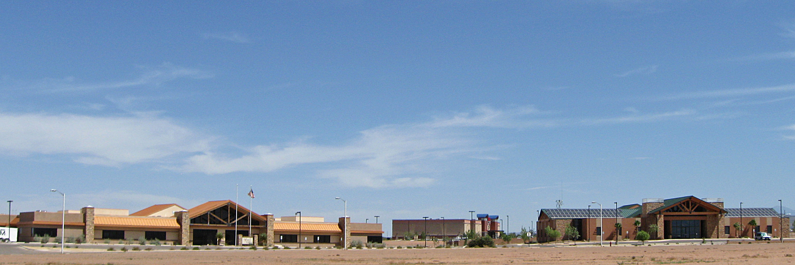 Mesa Village, a mixed retail/office/residential development in Alamogordo, New Mexico, located on Mesa Verde Ranch Road in the northwestern part of the city. The buildings shown are (from left) PreCheck, Inc.headquarters, Aviator 10 Theaters, and the US Department of Agriculture / Forest Service building.